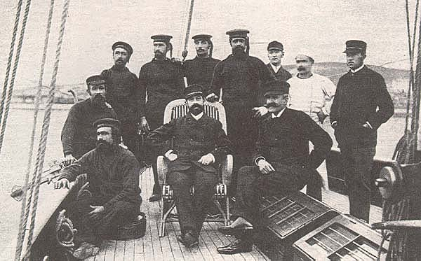 Archduke Johann Salvator of Austria-Tuscany, pseudonyme Johann Orth, youngest son of Leopold II Grand Duke of Tuscany. Born 1852, died at sea in 1890. Photographed on board of his steamer "Bessie".